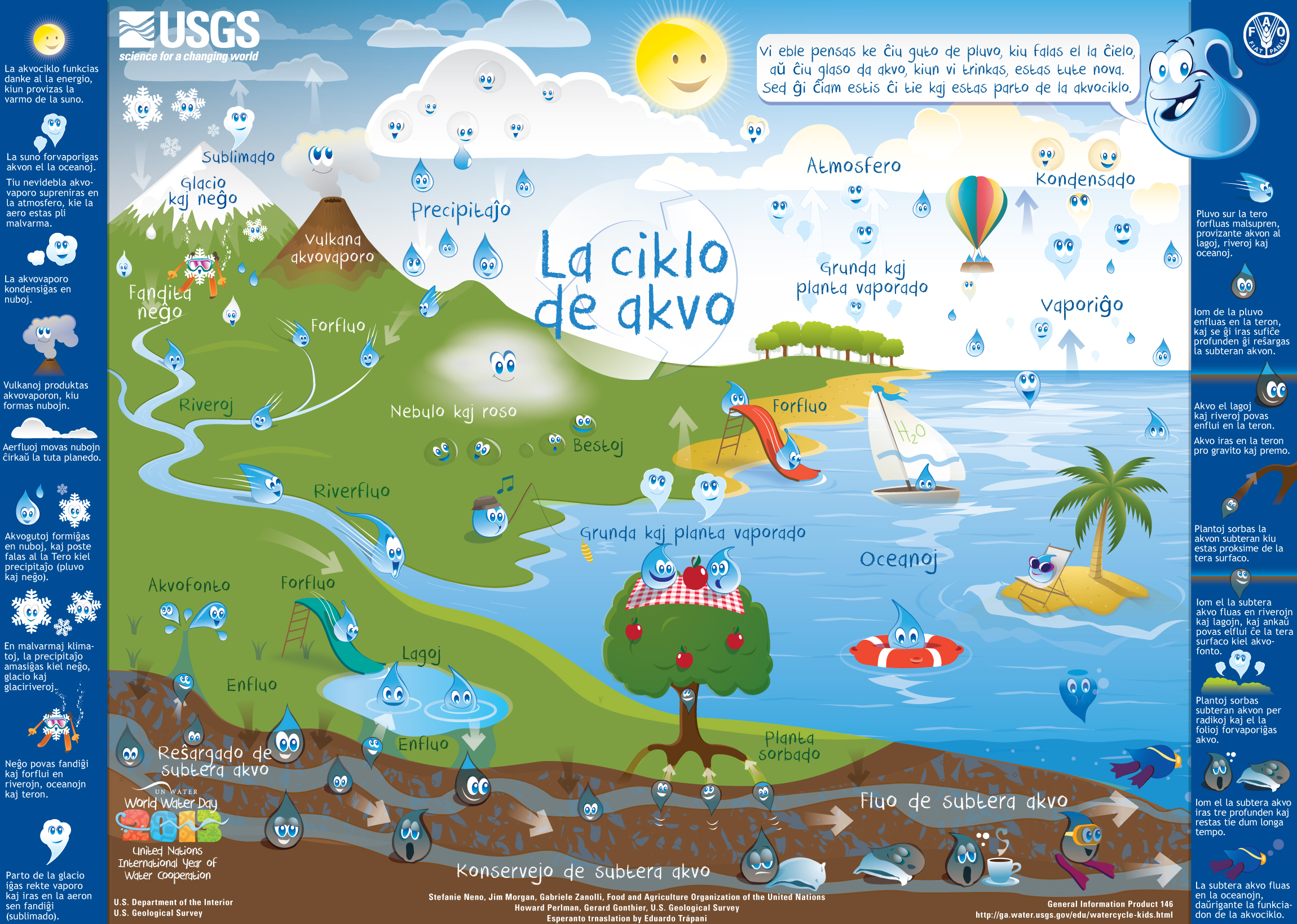 Diagram of the water cycle, for children.